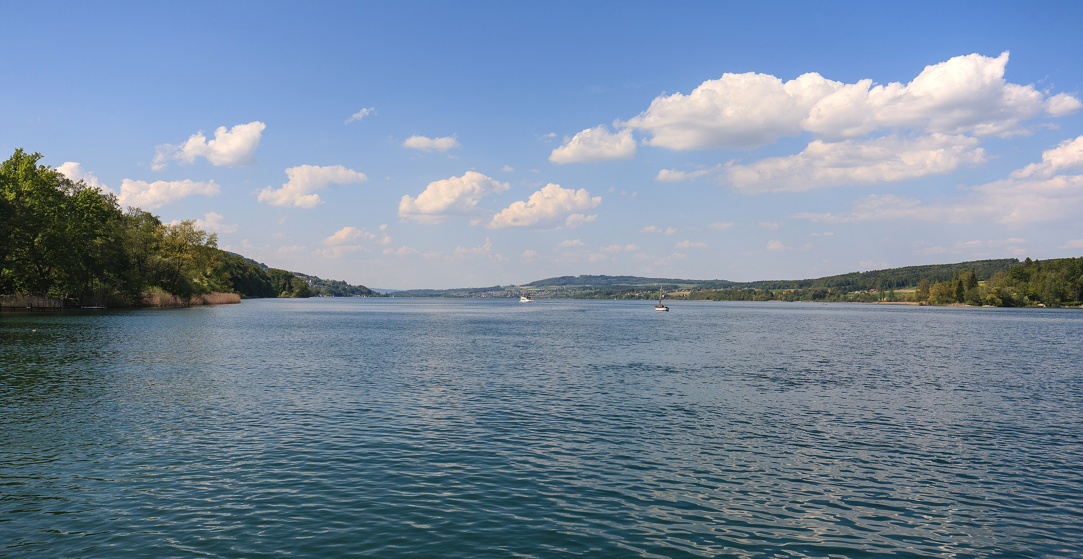 Lake Hallwil, mainly located in the canton of Aargau, Switzerland. View from south end close to the shipping pier of Mosen - Inventory number 1016L